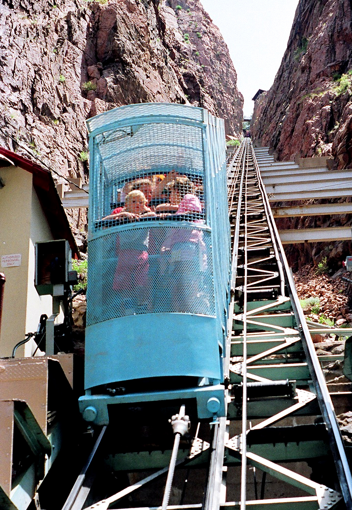 The Royal Gorge Incline in Cañon City, Colorado, United States.